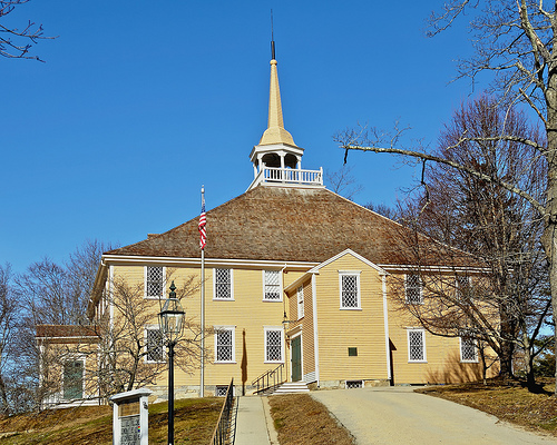 Old Ship Church, Hingham, Massachusetts